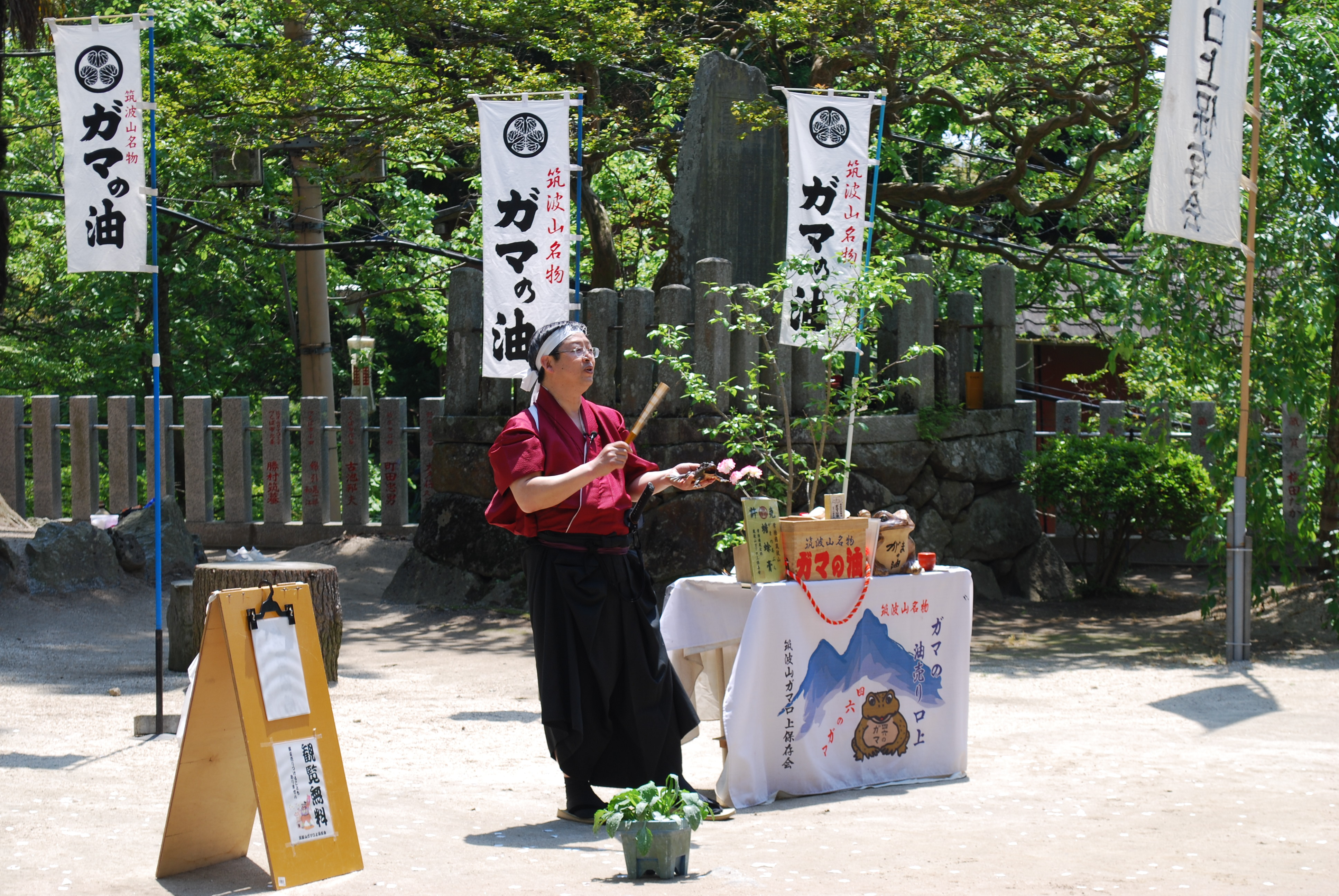 Gamanoabura-koujyo,Statement to sell "the oil of the reed mace",Tsukuba-city,Japan